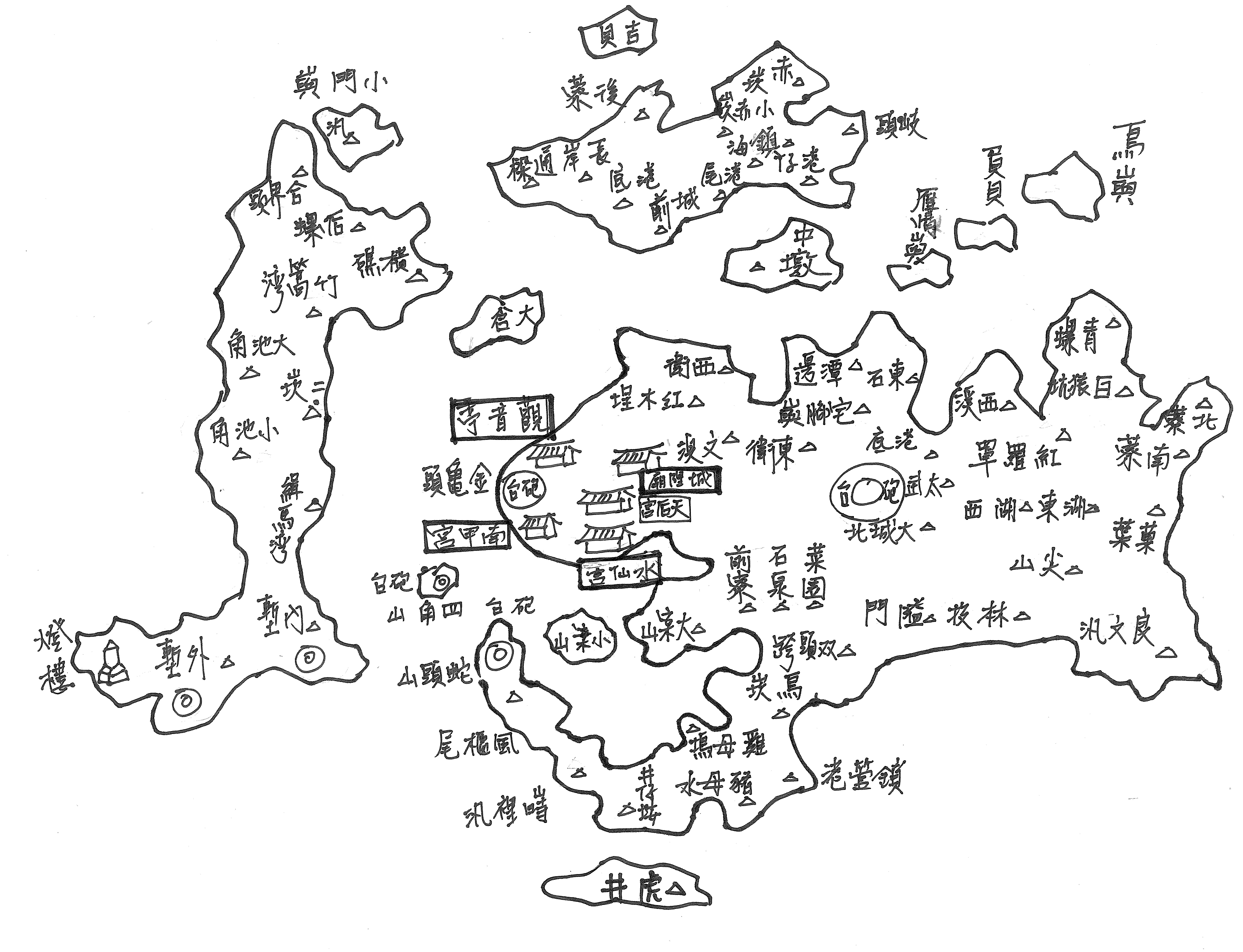 A historic map of Taiwan during Qing dynasty. The old map of Penghu islands or Pescadores in 1885. Drawn by 舟集/Toadboat.